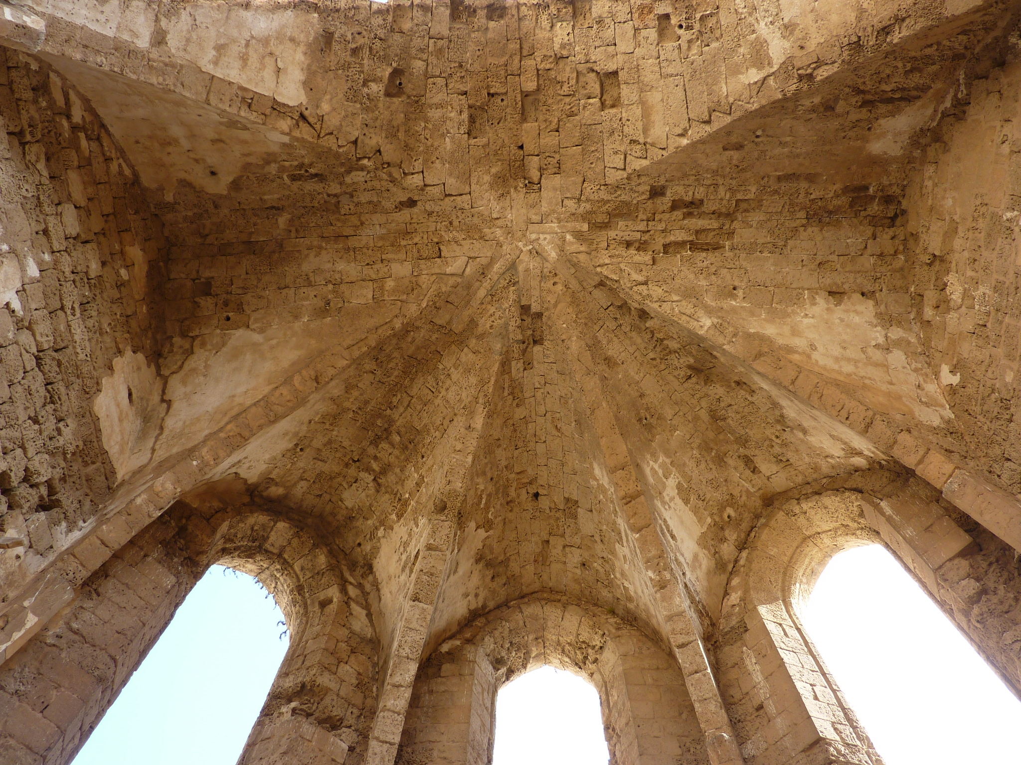 Carmelite Church, Famagusta